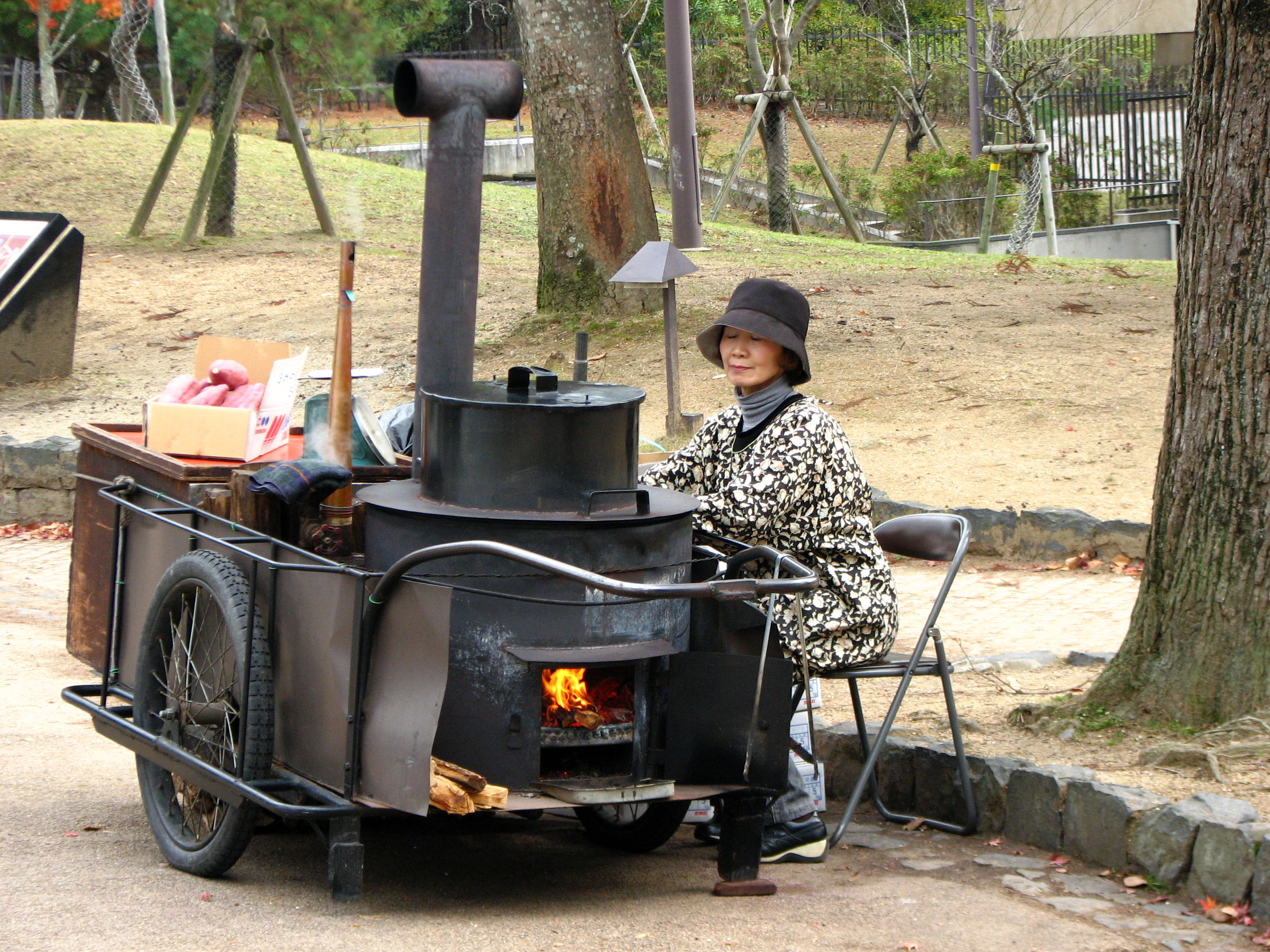 Selling roast sweet potatoes - very tasty on a cold winter's day...